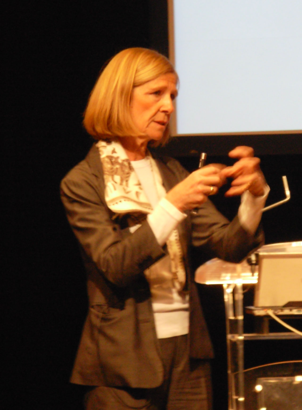 Pascale Cossart, French biologist, during the conference